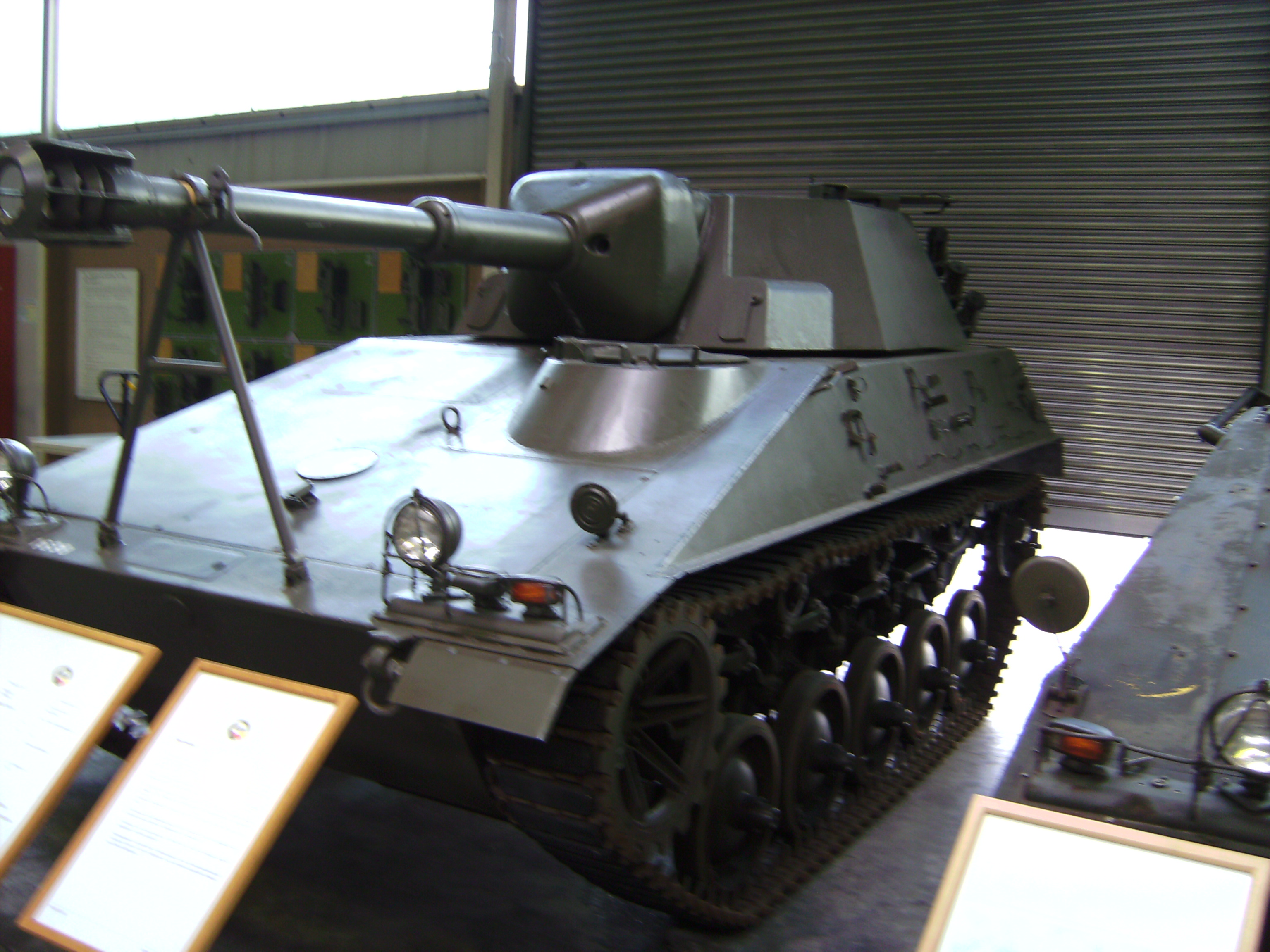 Prototyp SP I.C